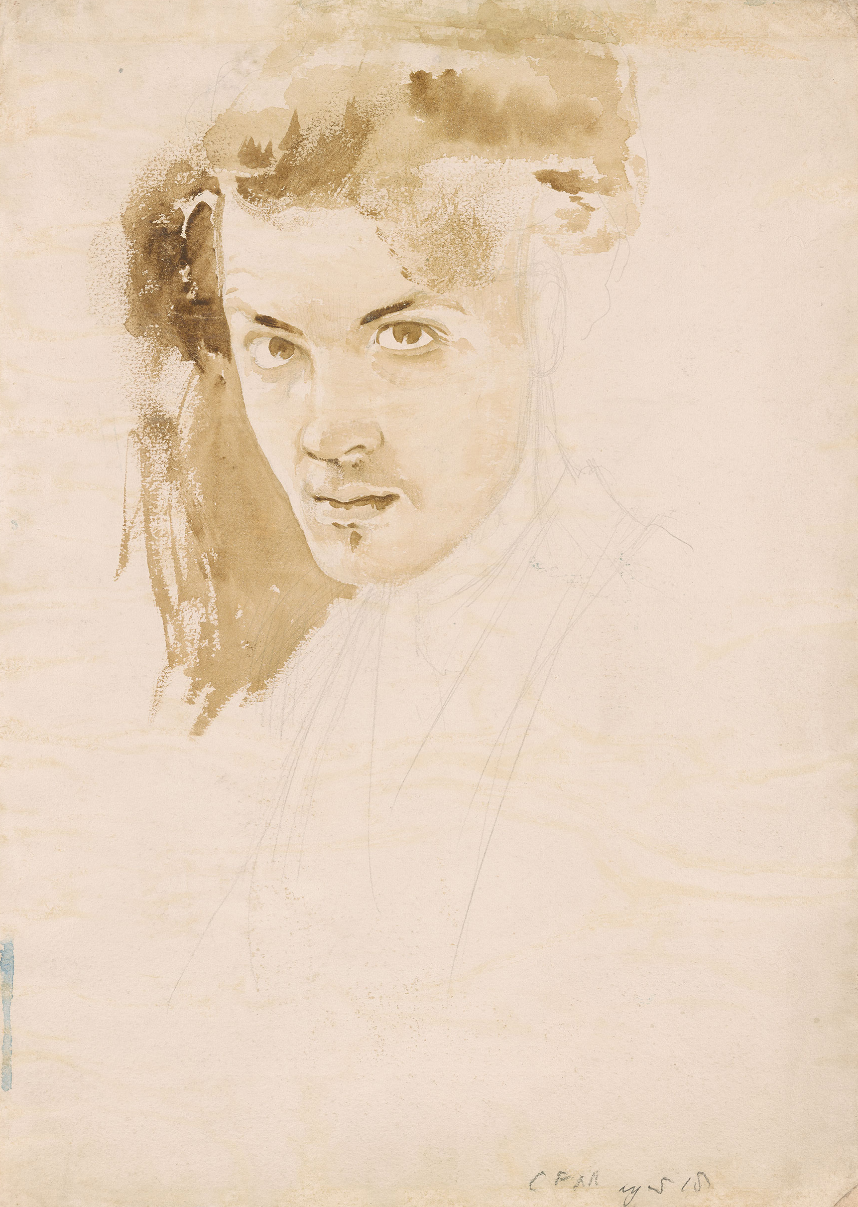 Self-Portrait brush and brown wash and pencil, some extraneous blue watercolor, on paper 36.2 x 25.4 cm inscribed b.r.: CFM 515